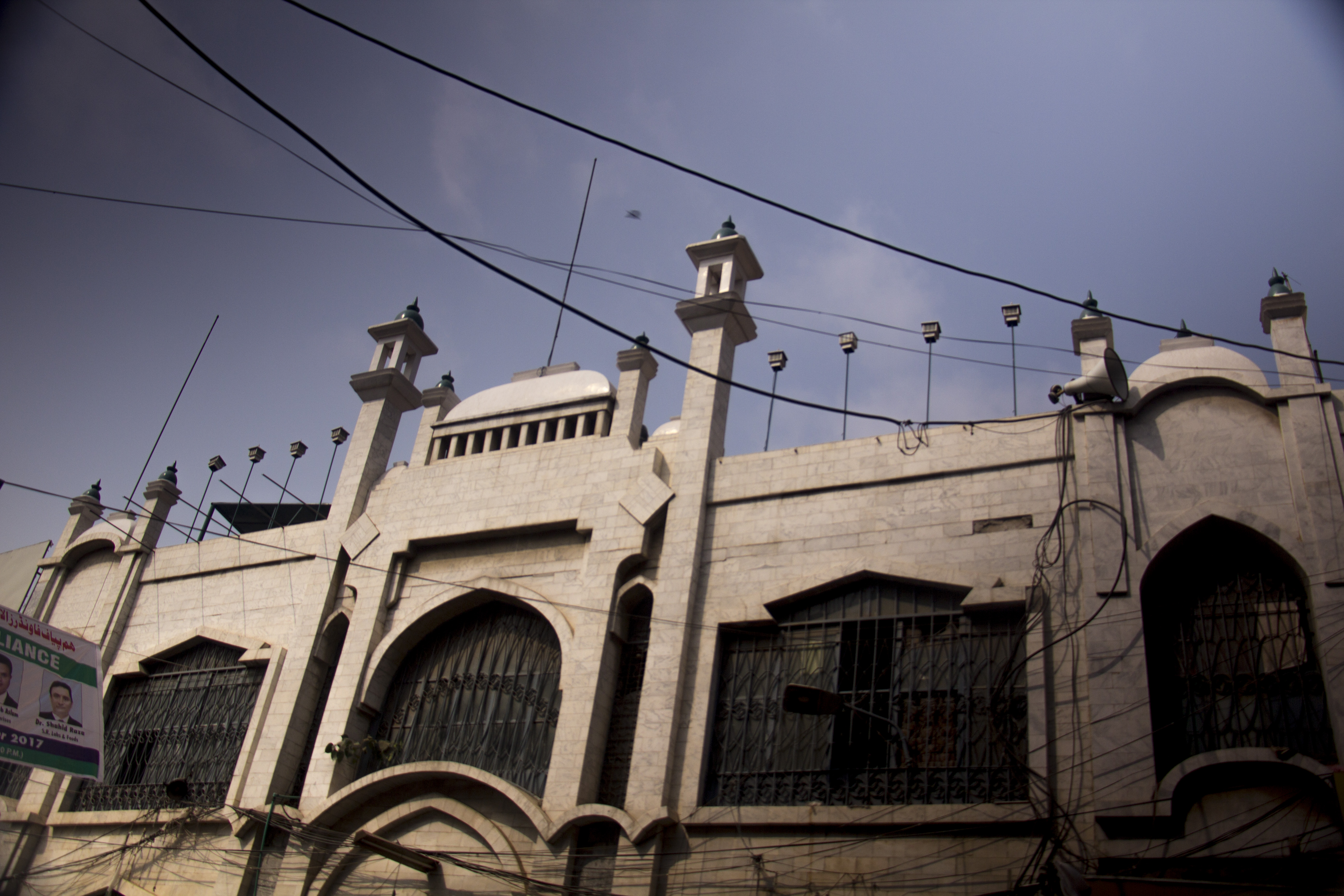 Masjid Mai Lado This is a photo of a monument in Pakistan identified as the PB-P-116